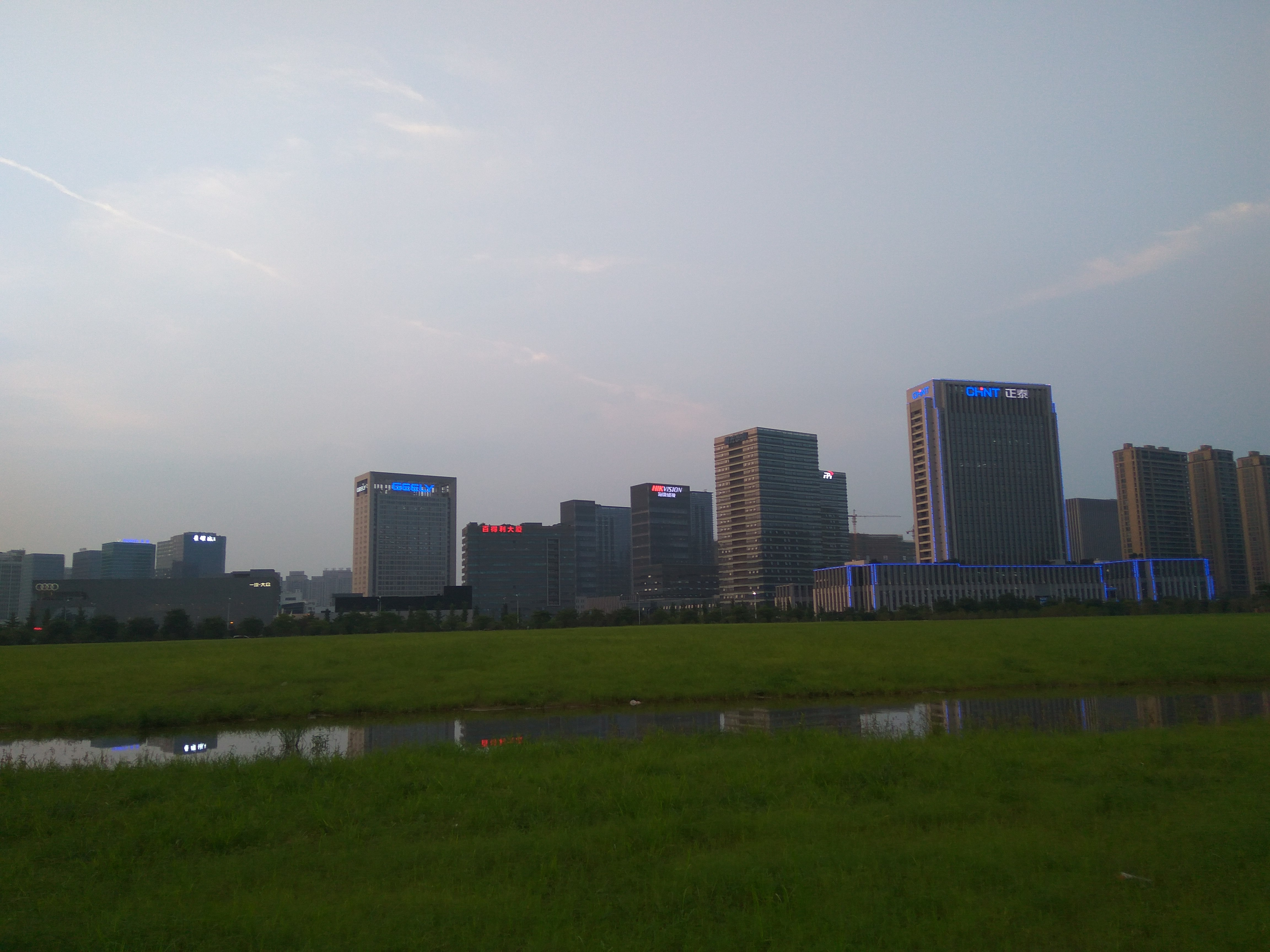 201607 Binjiang District. The area of grassfied used to be a market, demolished during the preperation period of G20 Summit.